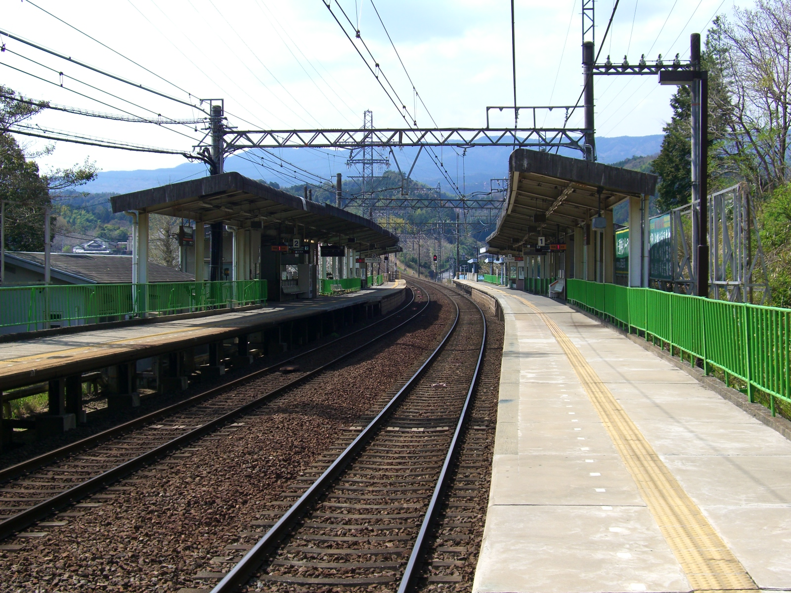 Kinki Nippon Railway Sakakibara-Onasenguchi Station Platform